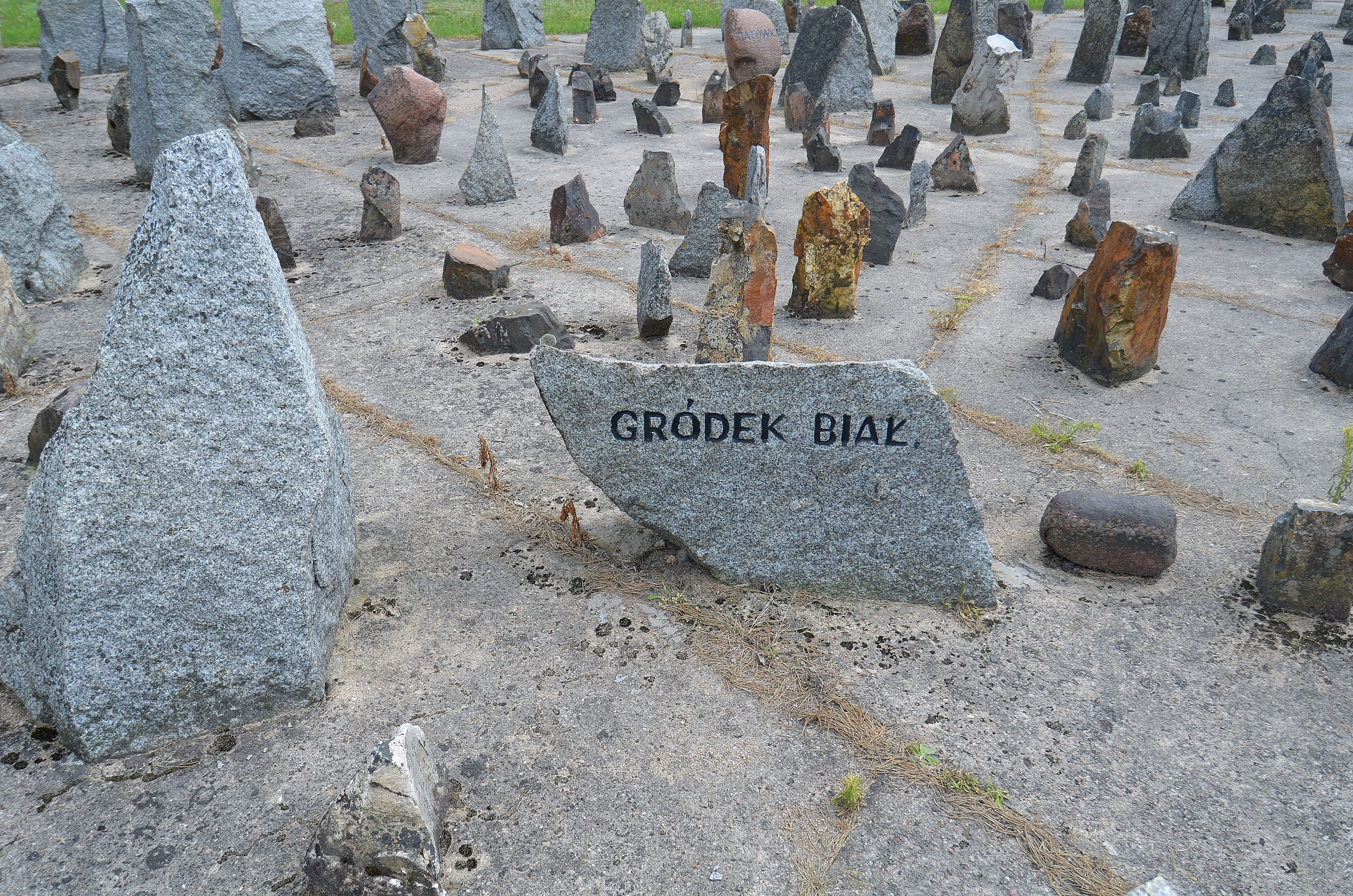 Treblinka II memorial